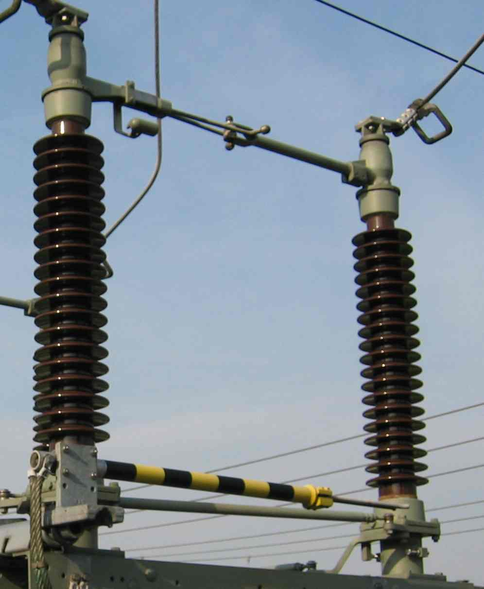 Closed disconnecting switch